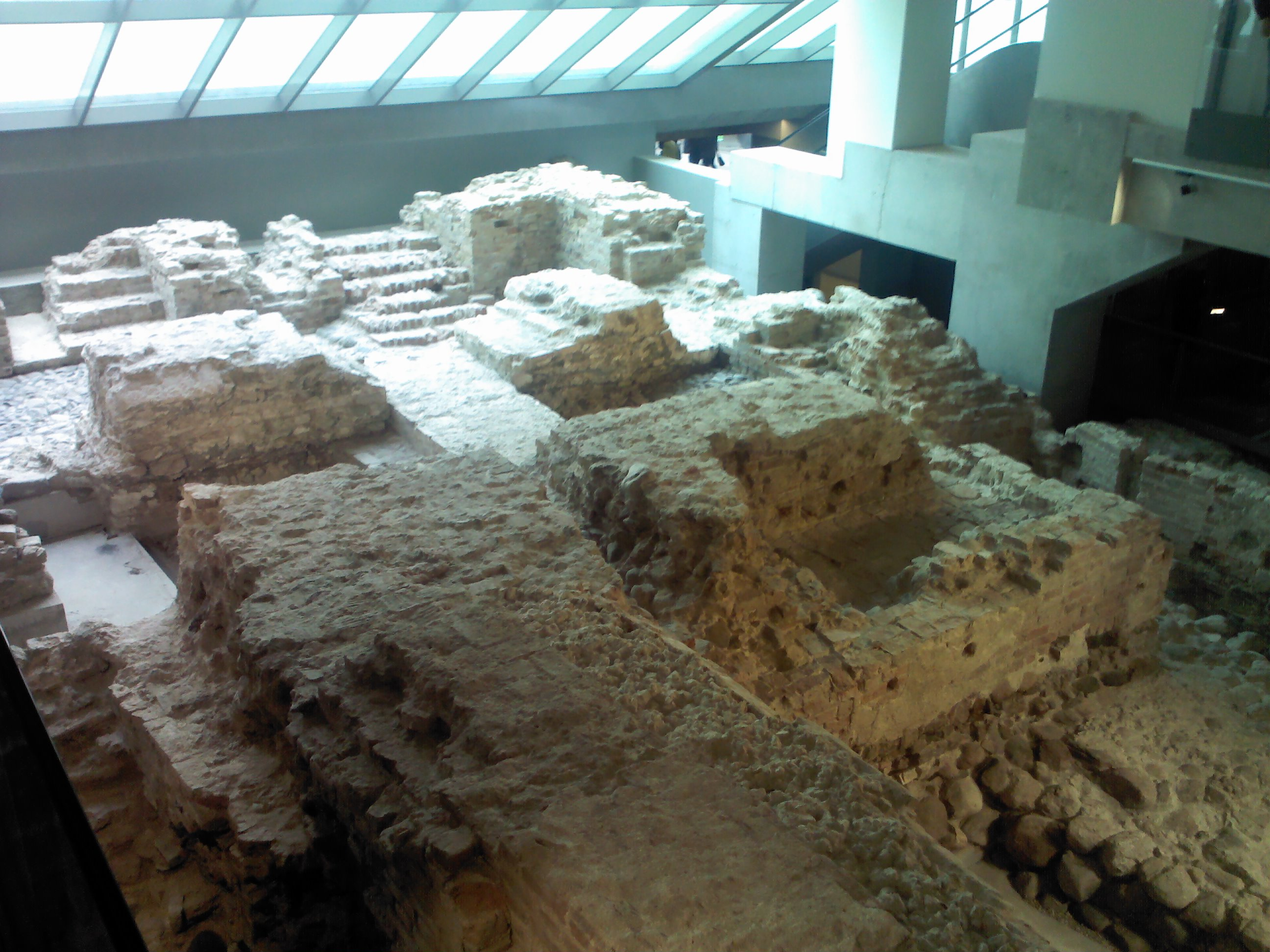 Stone and brick foundations and lower levels of the original palace. These were uncovered during the archaeological excavations and kept on display in the basement of the reconstructed Palace.